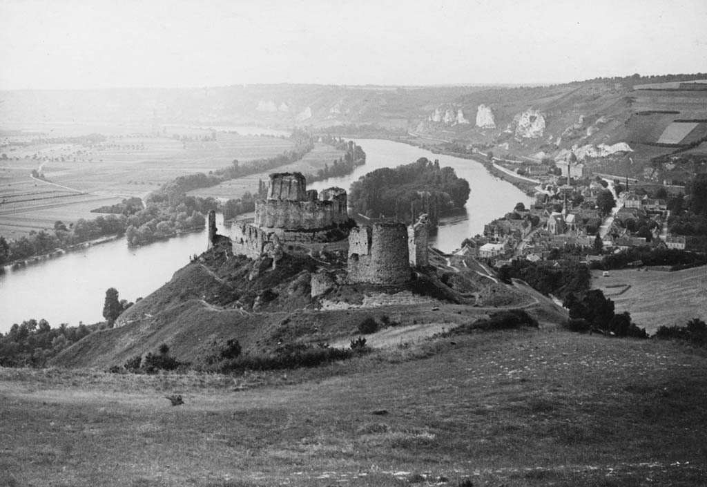 Ruins of medieval castle Château-Gaillard at the town Les Andelys in Normandy. Nearby is river Seine.